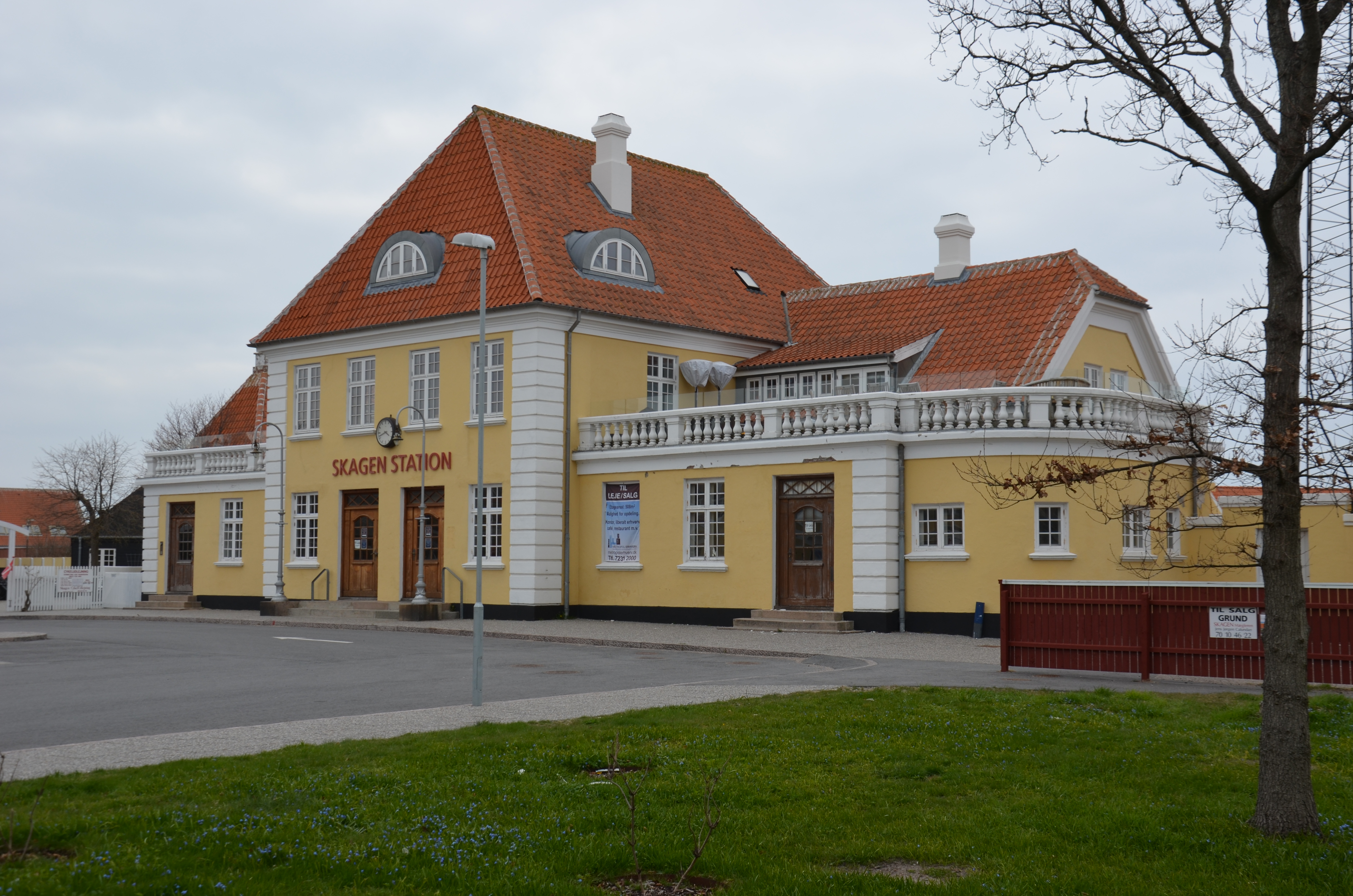 Skagen Station